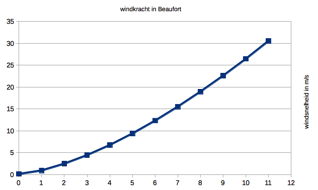 Graph of the relation between velocity of wind and Beaufort scale